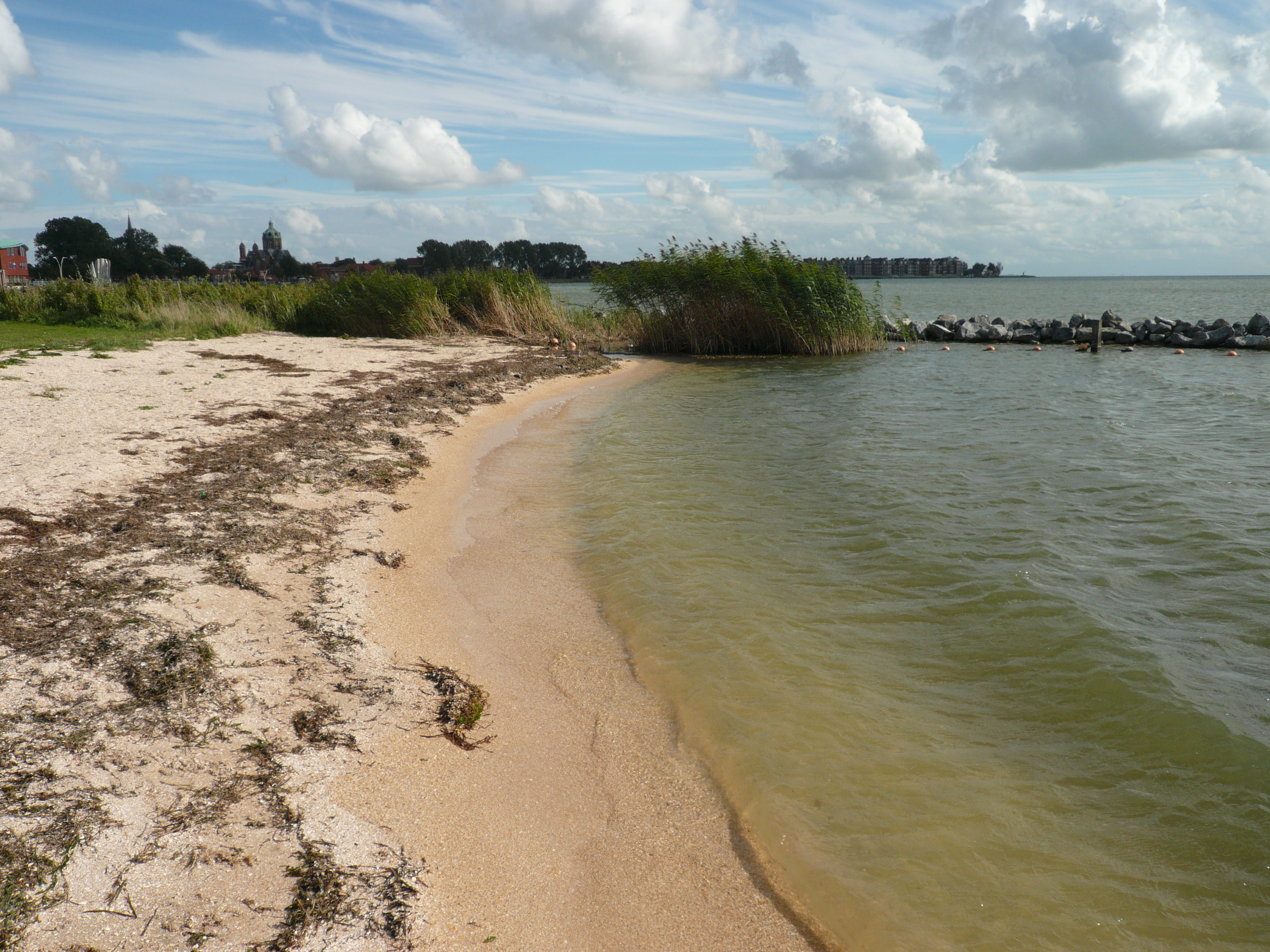 Beach of Ijsselmeer near Hoorn